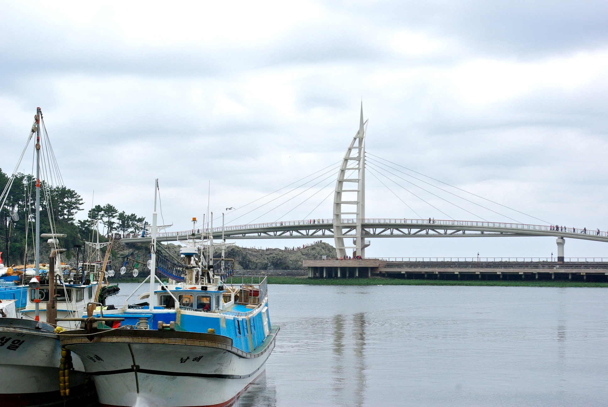 Saeyeon-gyo(Bridge Saeyeon) seen from Seogwipo Harbor. The bridge is connected to Saeseom(Sae island) on the left.